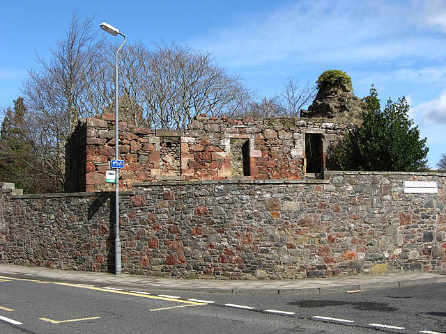 Fisher's Tower, Darnick This ruined 16th century tower house stands in the grounds of Darnick Tower. There were originally three towers in the village but there is no sign today of the third tower. Viewed from Abbotsford Road with a street sign on the wall for Tower Road leading to Fishers Lane.